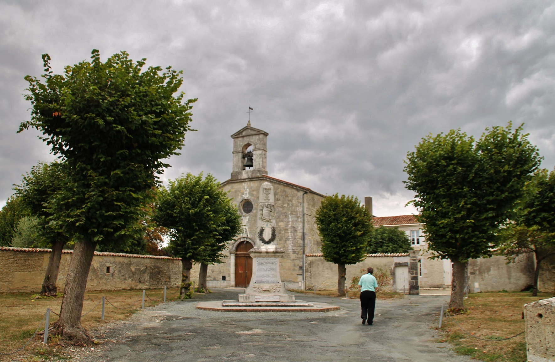 église St André et le Monument-aux-Morts